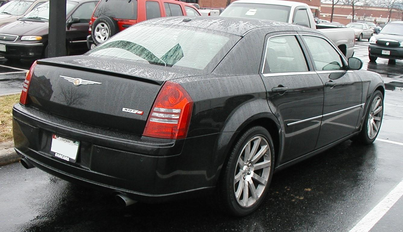 Chrysler 300c SRT-8 photographed in USA.